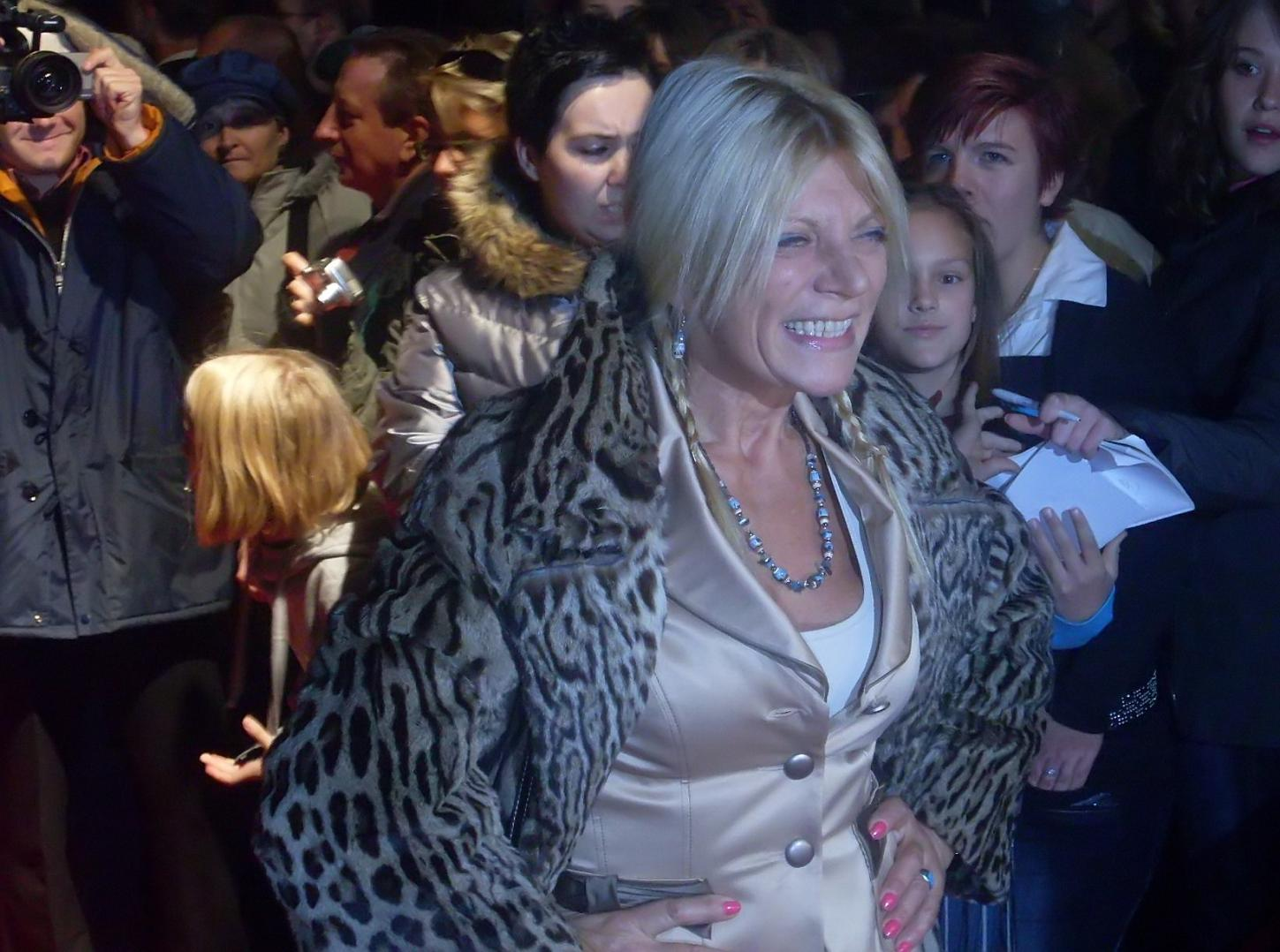 Polish actress Dorota Stalińska at Polish Film Festival in Gdynia.